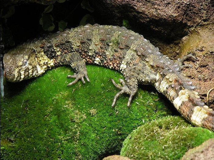 Chinese crocodile lizard (Shinosaurus crocodilurus)